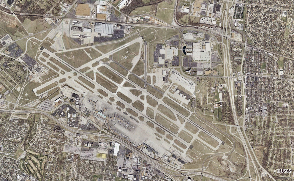 Lambert St. Louis Airport, screen shot from NASA World Wind